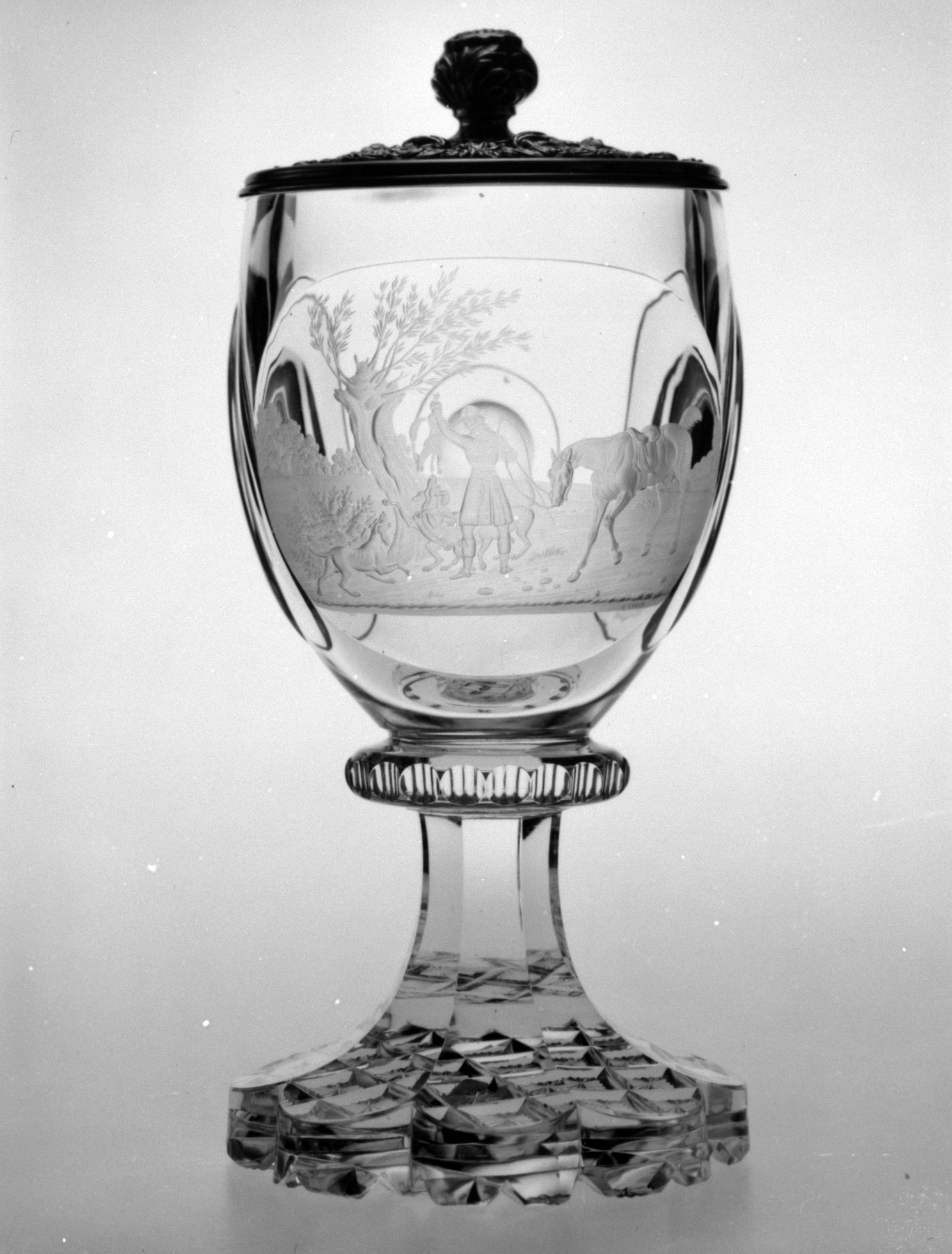 Austrian, probably Vienna; Goblet; Glass